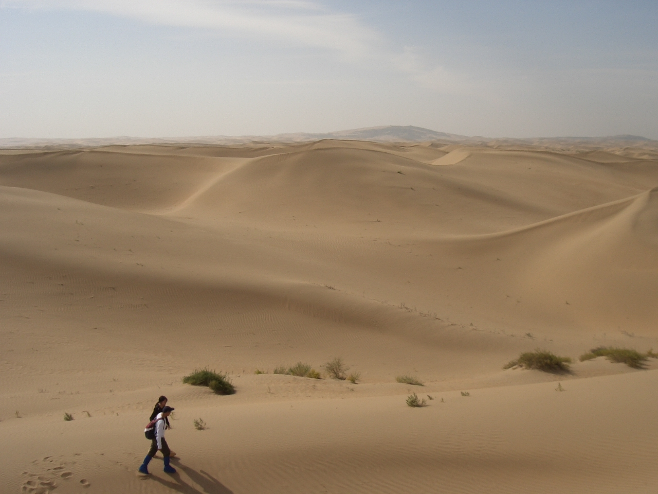 The Gobi Desert stretches into Inner Mongolia, China.